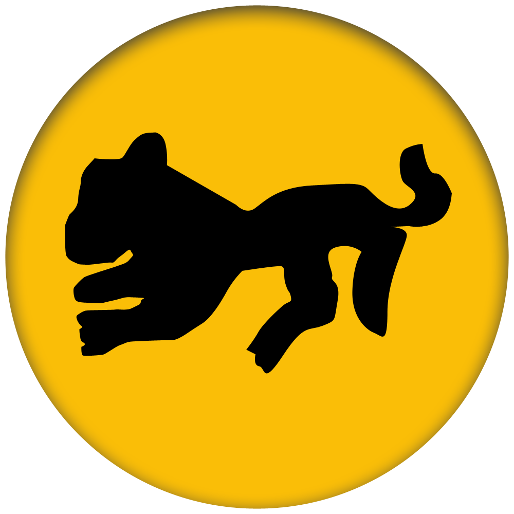 Baibars-Icon A leader from the Mamluks